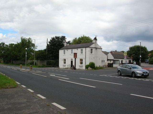 Blacksmith's Arms